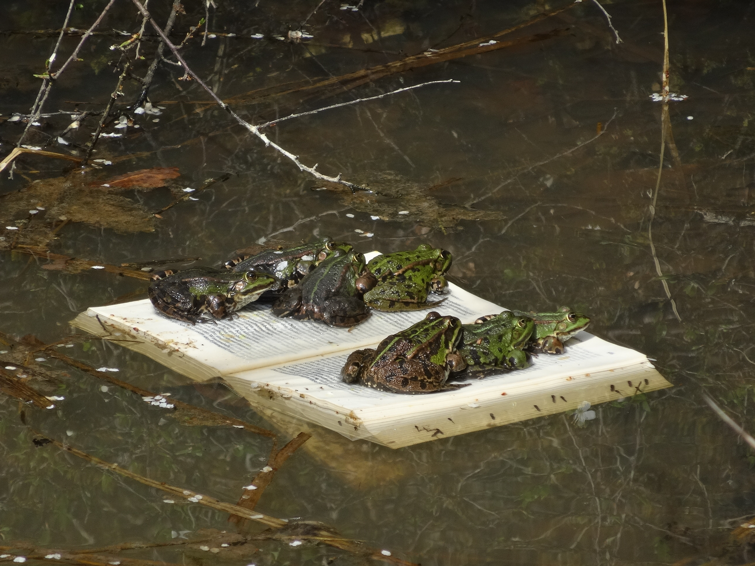 Common water frogs (sitting on a book) in the valley of the Goldersbach in the nature park Schönbuch, south west of Stuttgart. The book is William Shakespeare's Love's Labour's Lost displaying act IV, scene 1.